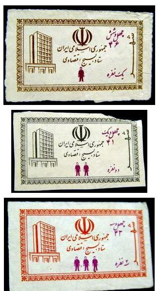 Supplemental Nutrition Assistance Program in Iran